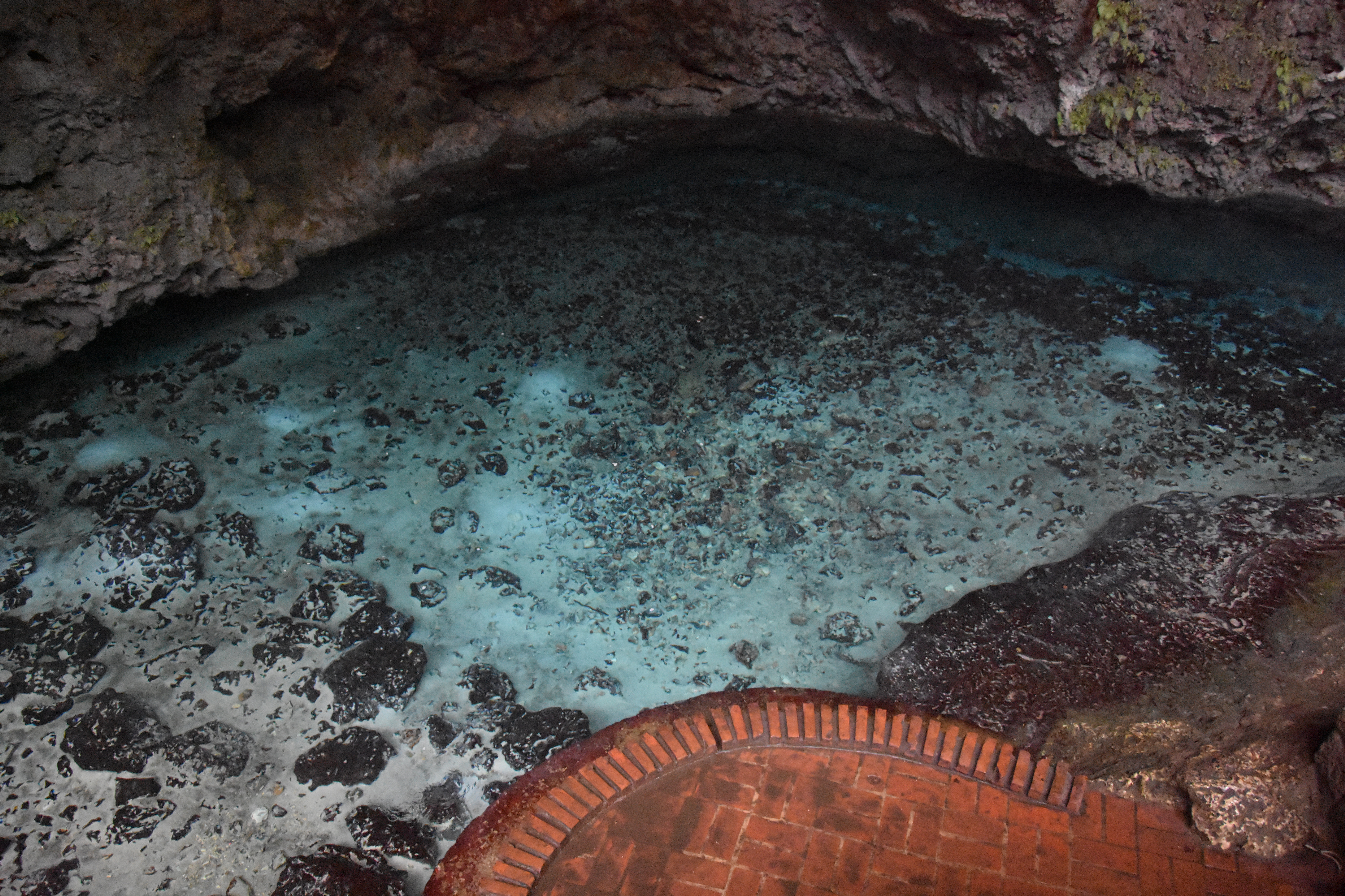 Los Tres Ojos national park in Santo Domingo Este, Dominican Republic.